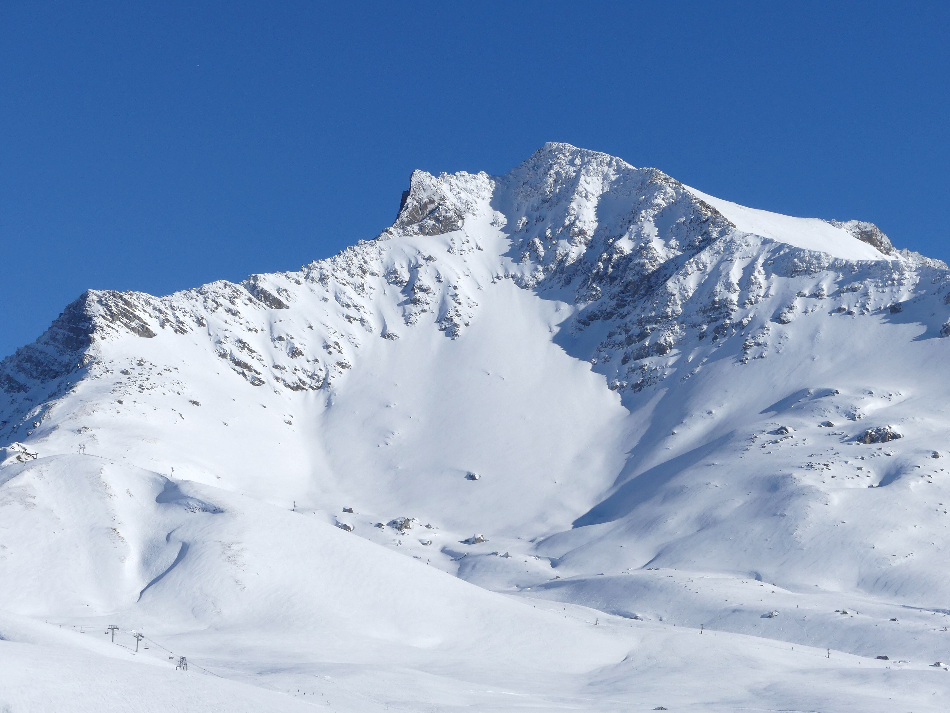 Sight, from the road to the Madeleine pass turned into a slope of Saint-François-Longchamp ski resort, of the Cheval Noir mountain (2,832 meters high), in Savoie, France.